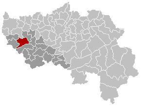 Map, municipality belgium Wanze